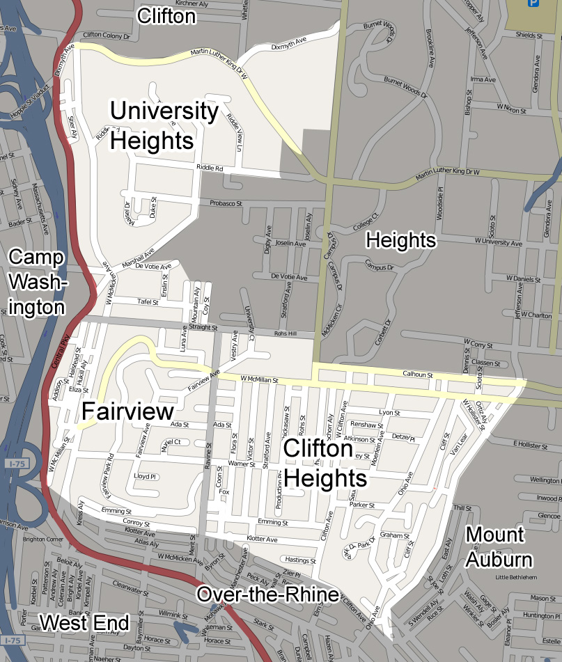 A street map of CUF, a neighborhood in Cincinnati, Ohio. CUF has three smaller districts inside of it: Clifton Heights, University Heights, and Fairview.